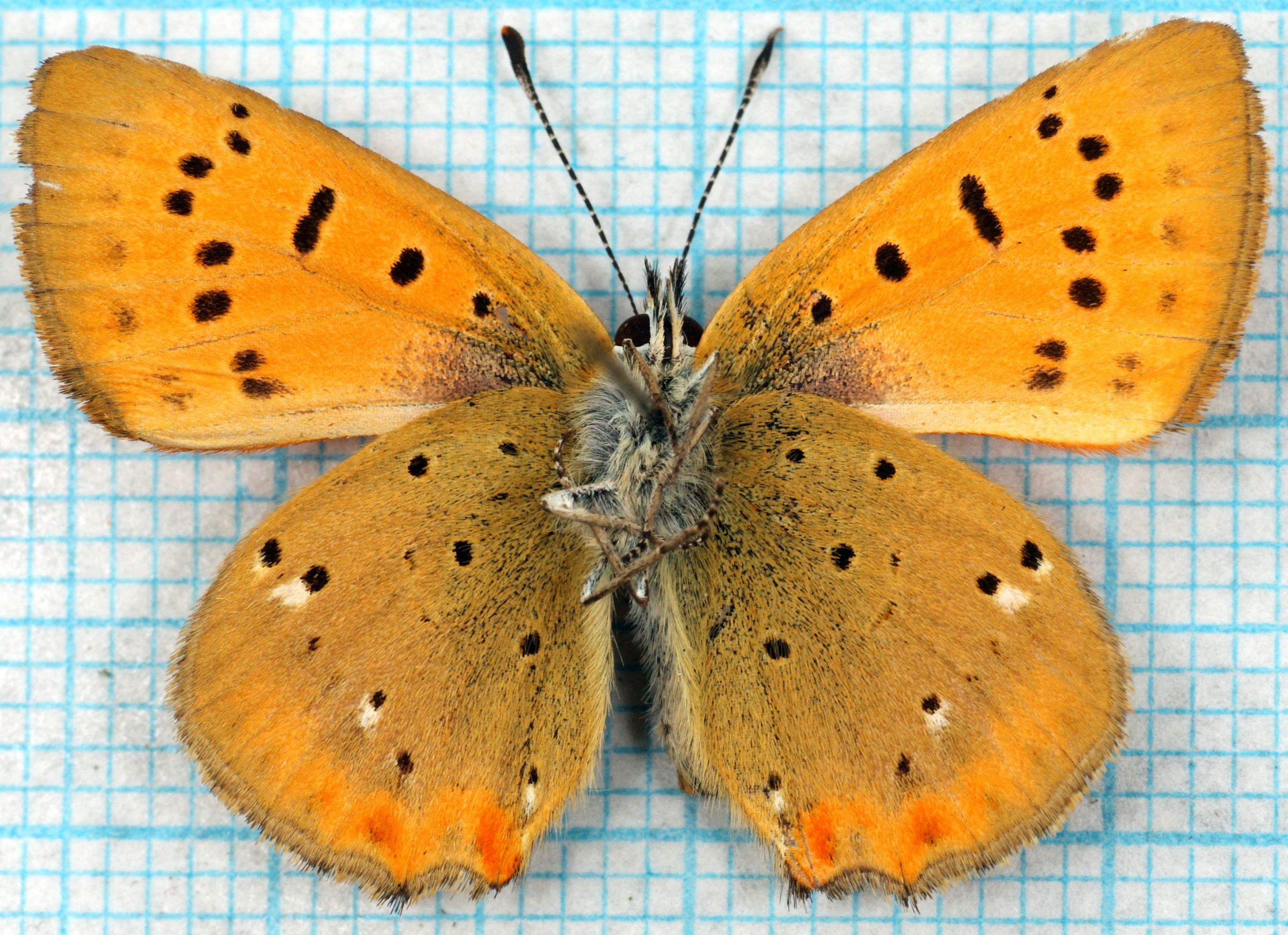 Male Scarce copper Lycaena virgaureae